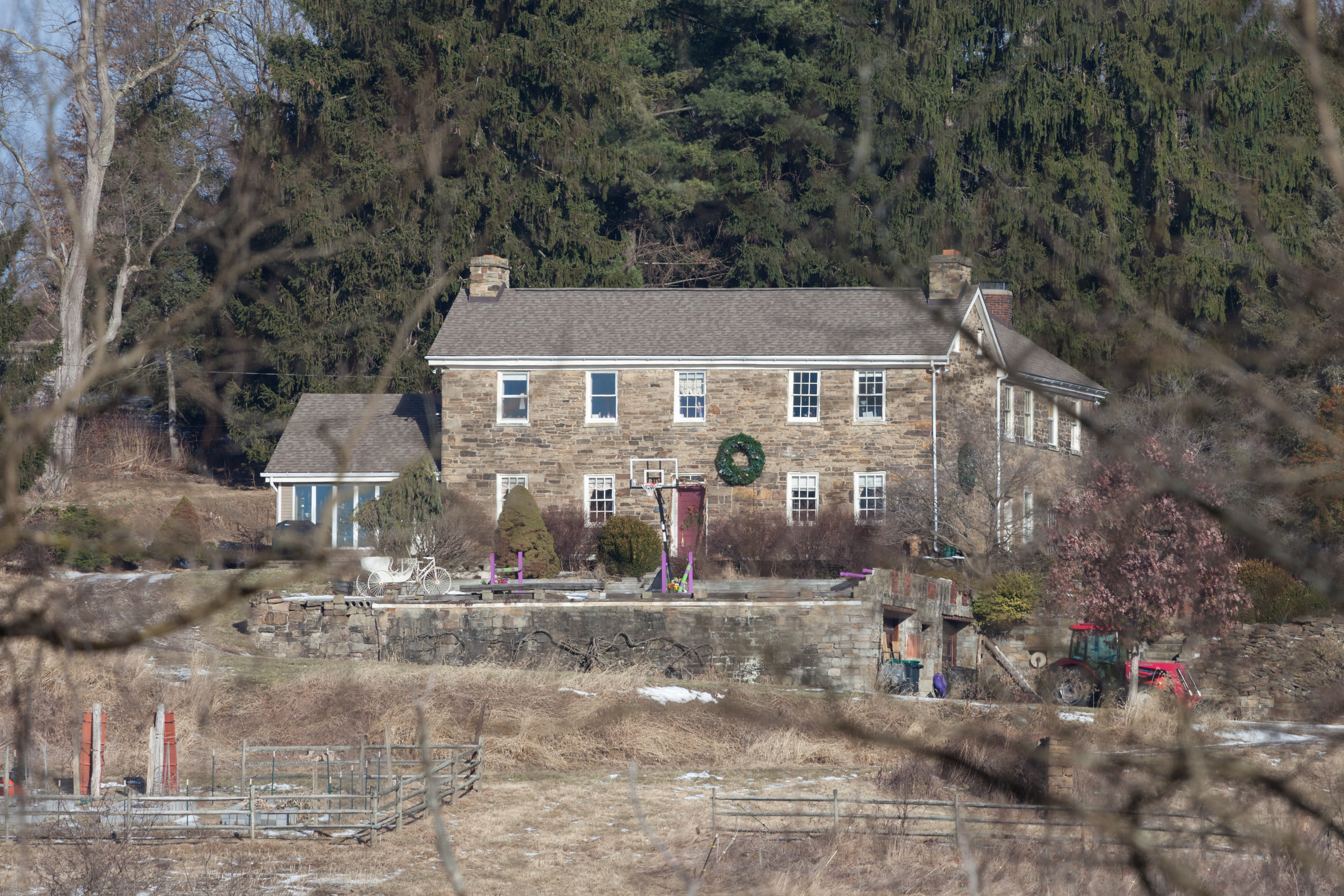 Thomas Munce House in South Strabane Township, Pennsylvania. South facade, seen from E. Beau St.